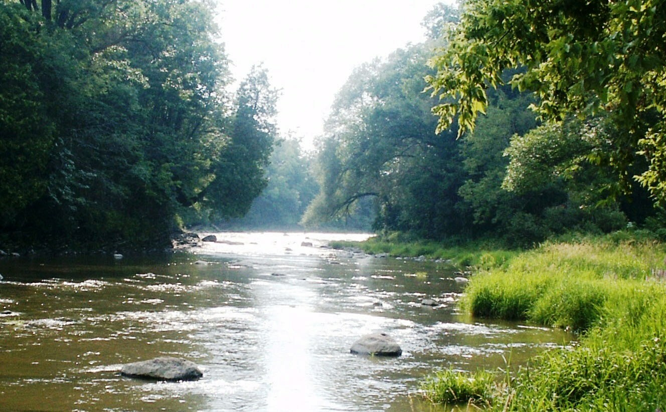 Images from the Bayonne river.